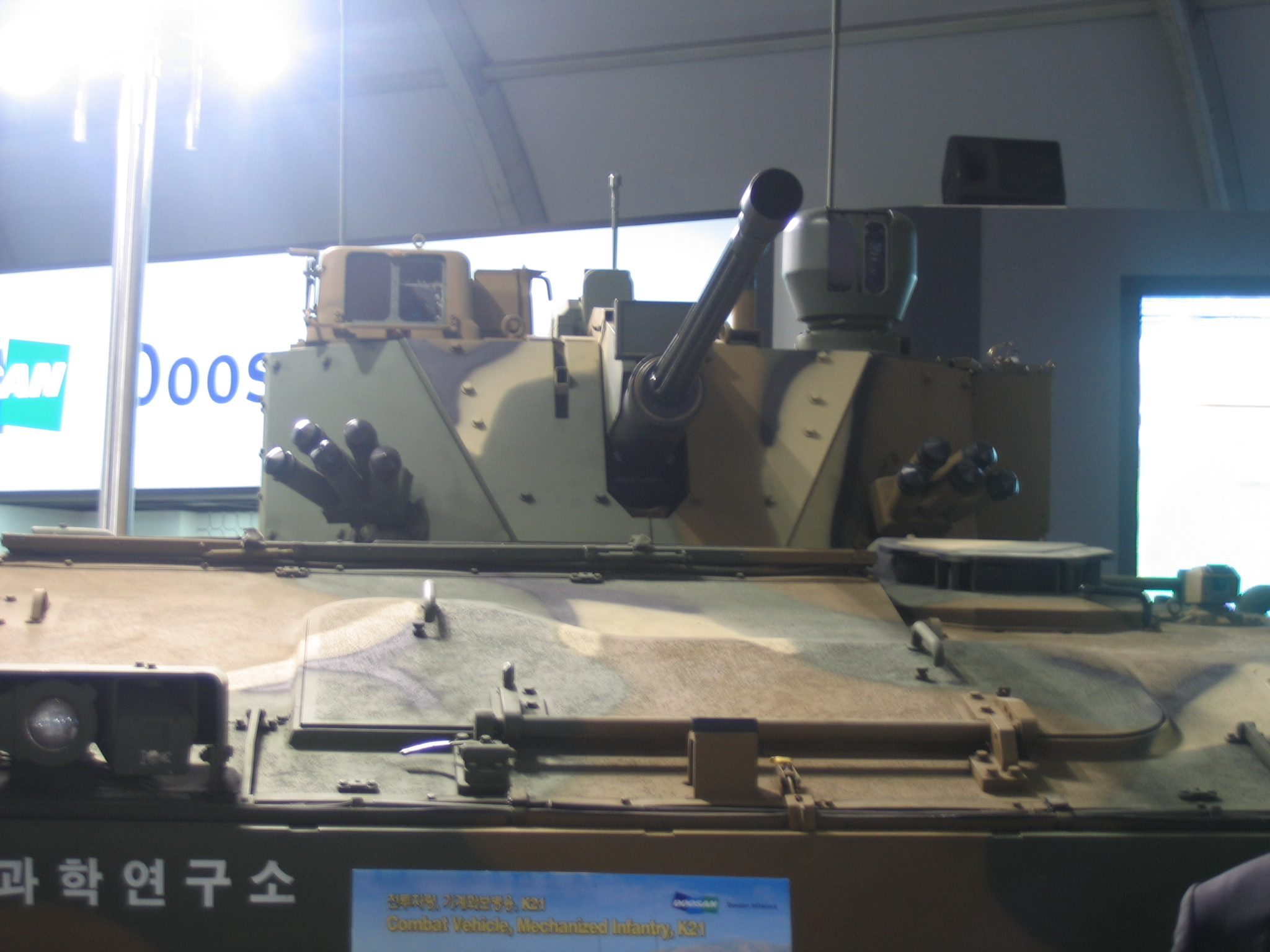 K21 IFV turret of South Korea which photoed by Rheo1905 in 2007 Seoul Air Show